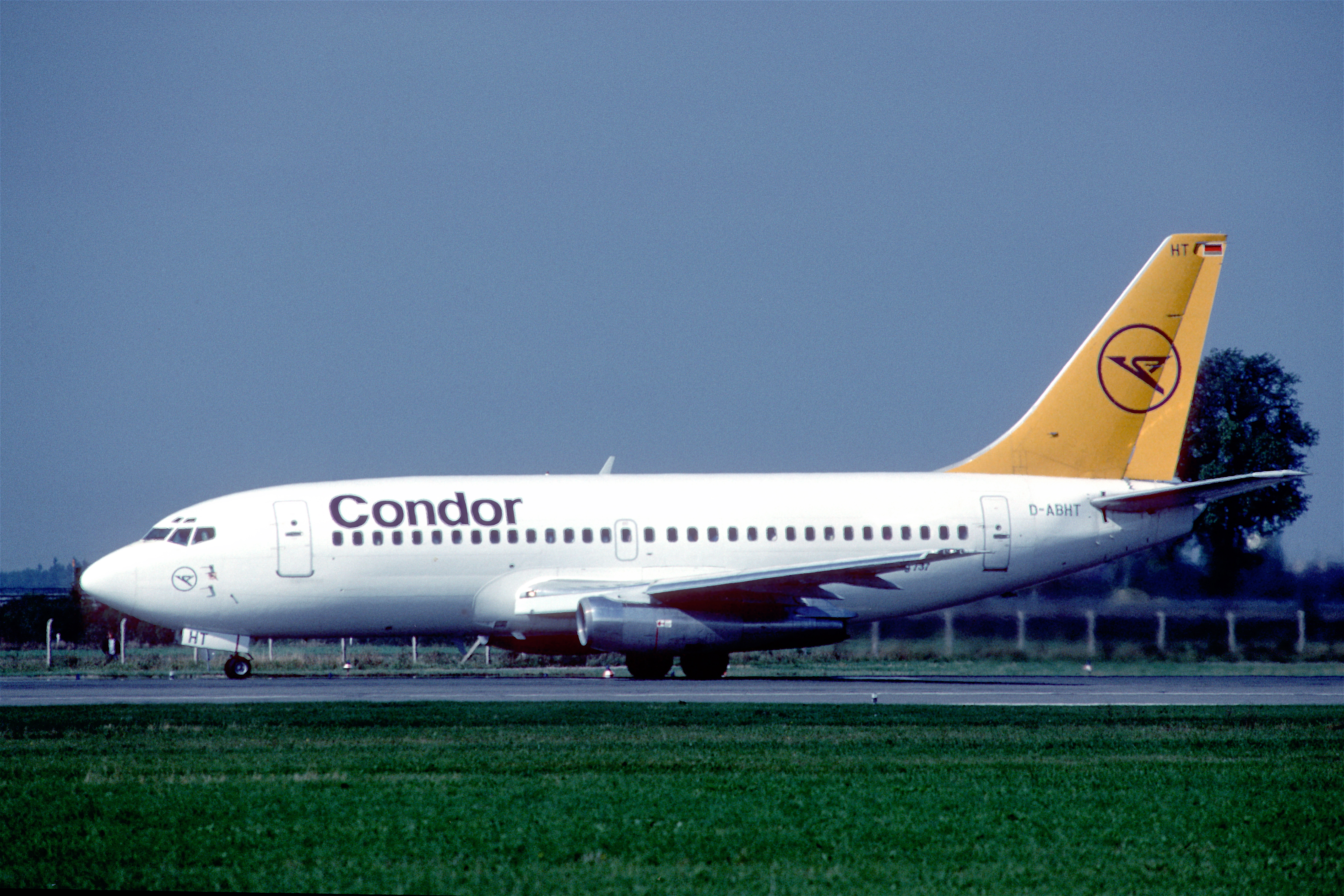 First flight: October 15, 1981... 30/10/1981 Condor D-ABHT 13/10/1987 TAP Air Portugal CS-TER 01/01/1996 LACSA N271LR 01/09/1999 TACA N271LR 15/01/2002 Sky Airline CC-CTH